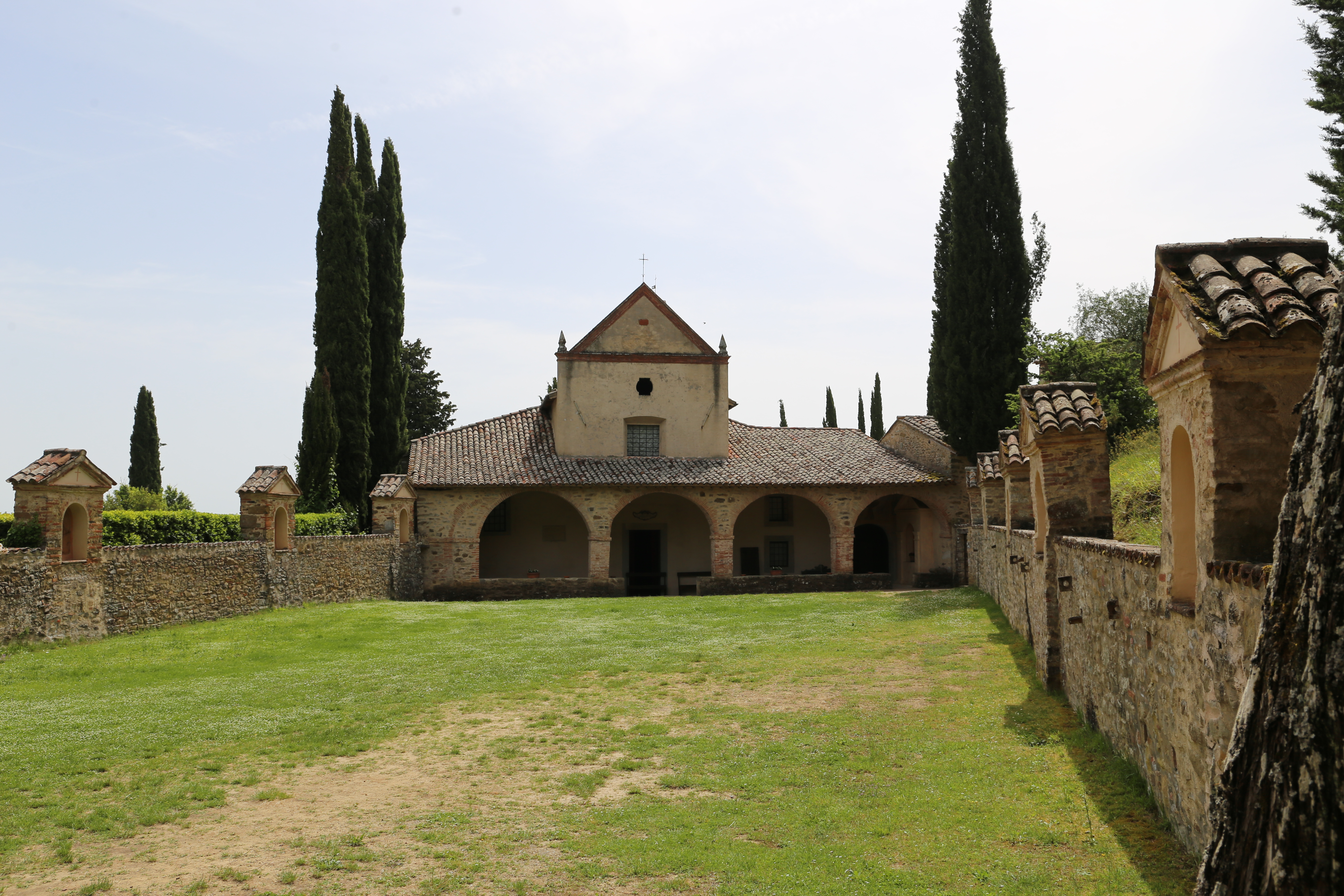 La Scarzuola